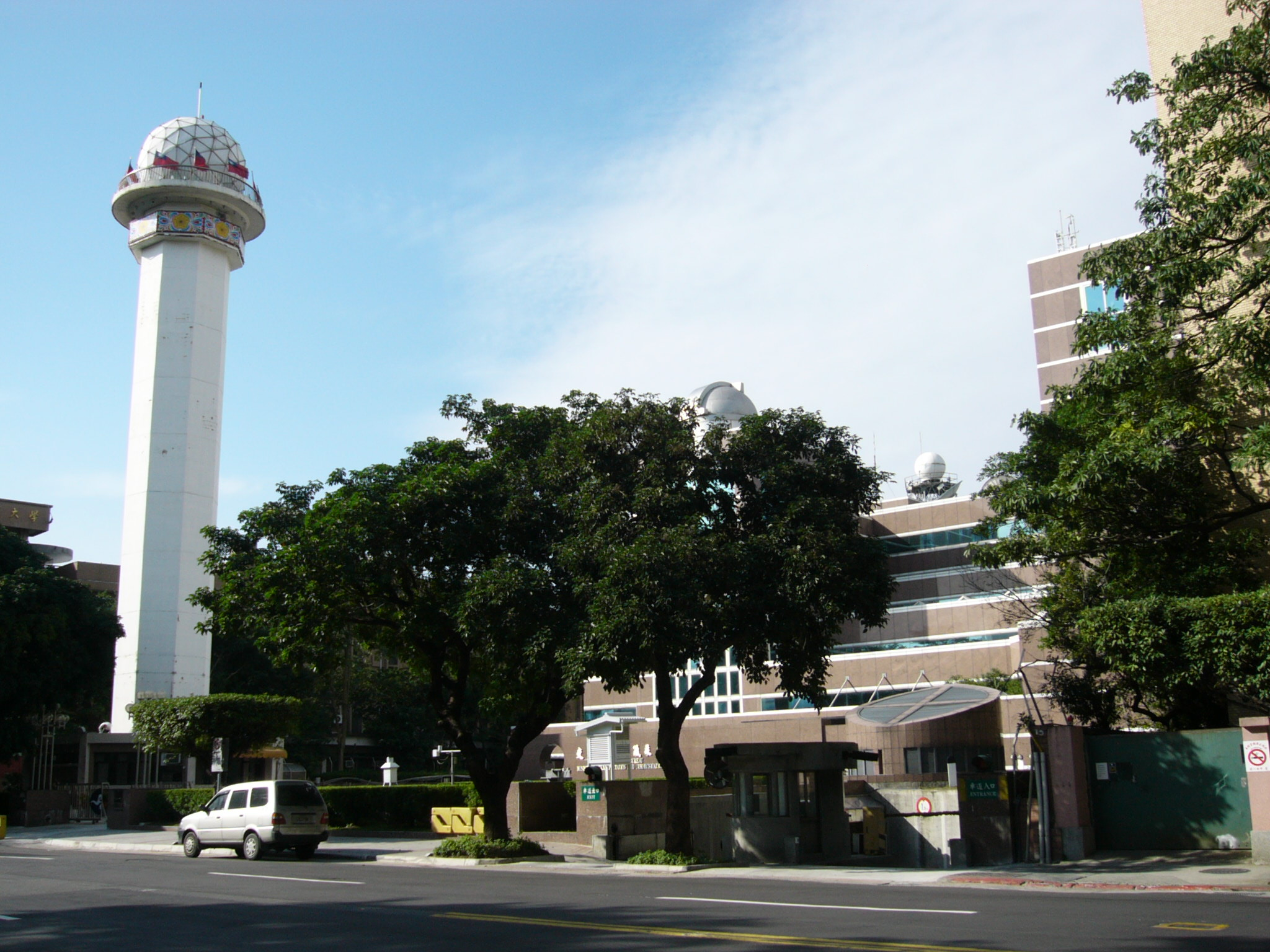 Central Weather Bureau of the Republic of China